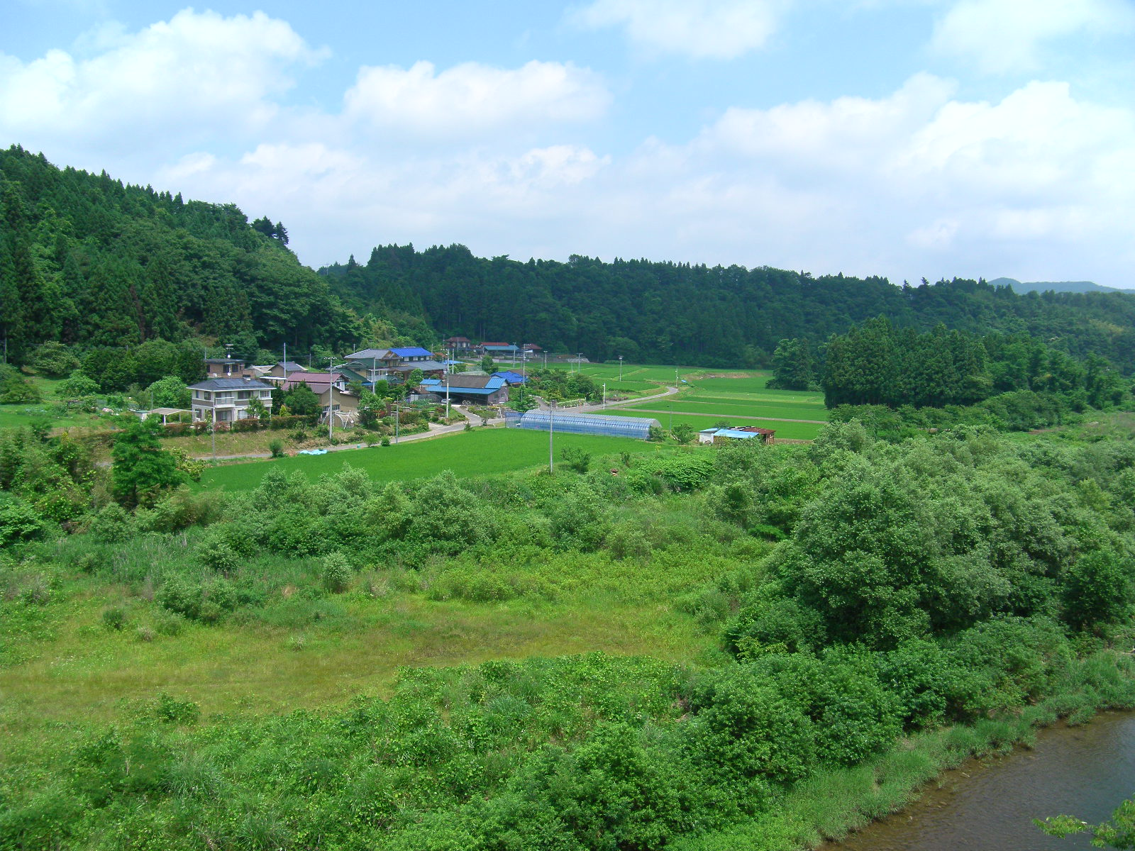 Hongo of Imozawa and the Hirose River. Aoba ward, Sendai, Miyagi prefecture, Japan.